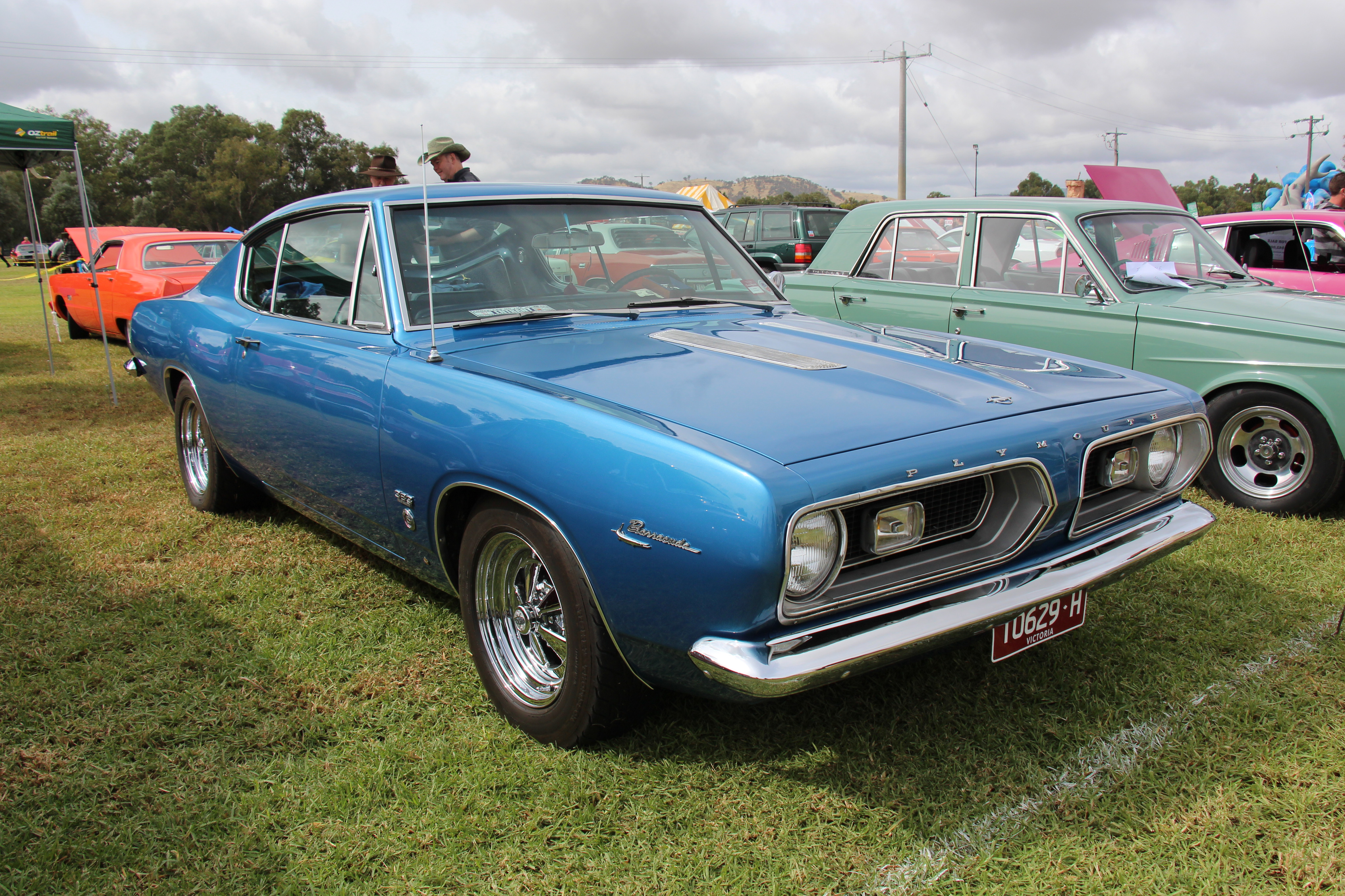 Barracudas were built from 1964-74. This a 2nd generation Cuda, now a 108 in wheelbase A-body, still shared many components with the Valiant but was fully redesigned with different styling, models included convertibles, fastback and notchback hardtops. 1967: no sidemarker lights. 225 6 cyl, 273 and 383 V8s 1968: round sidemarkers. 273 replaced with 318, and 340 V8 introduced as well 1969: rectangular sidemarkers. 440 V8 added